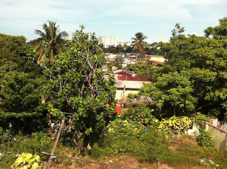 Settlements in the margins of the Caño Martín Peña